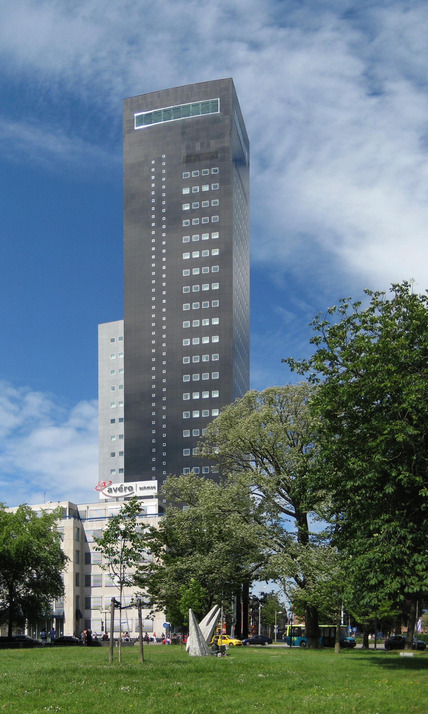 The Achmea Tower in Leeuwarden, the capital of the Dutch province of Fryslân (1999-2001, Bonnema Architecten).